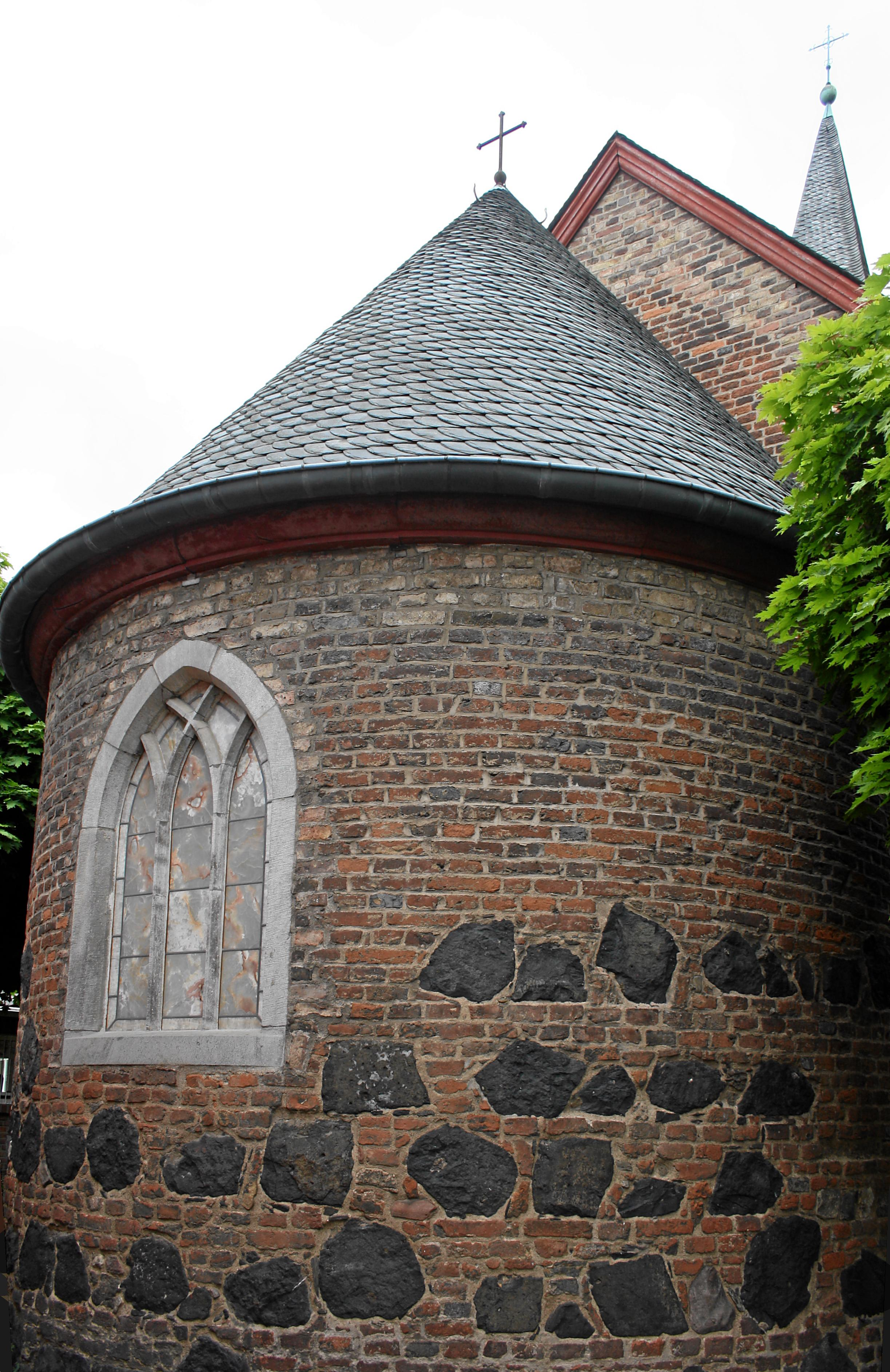 Köln-Weiß, Germany. Roman-catholic chapel Saint George. Exterior view from East.